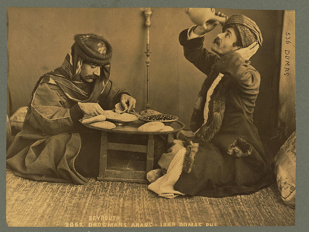 Title: Beyrouth. Drogmans arabs / Dumas Ph. Abstract/medium: 1 photographic print: albumen.